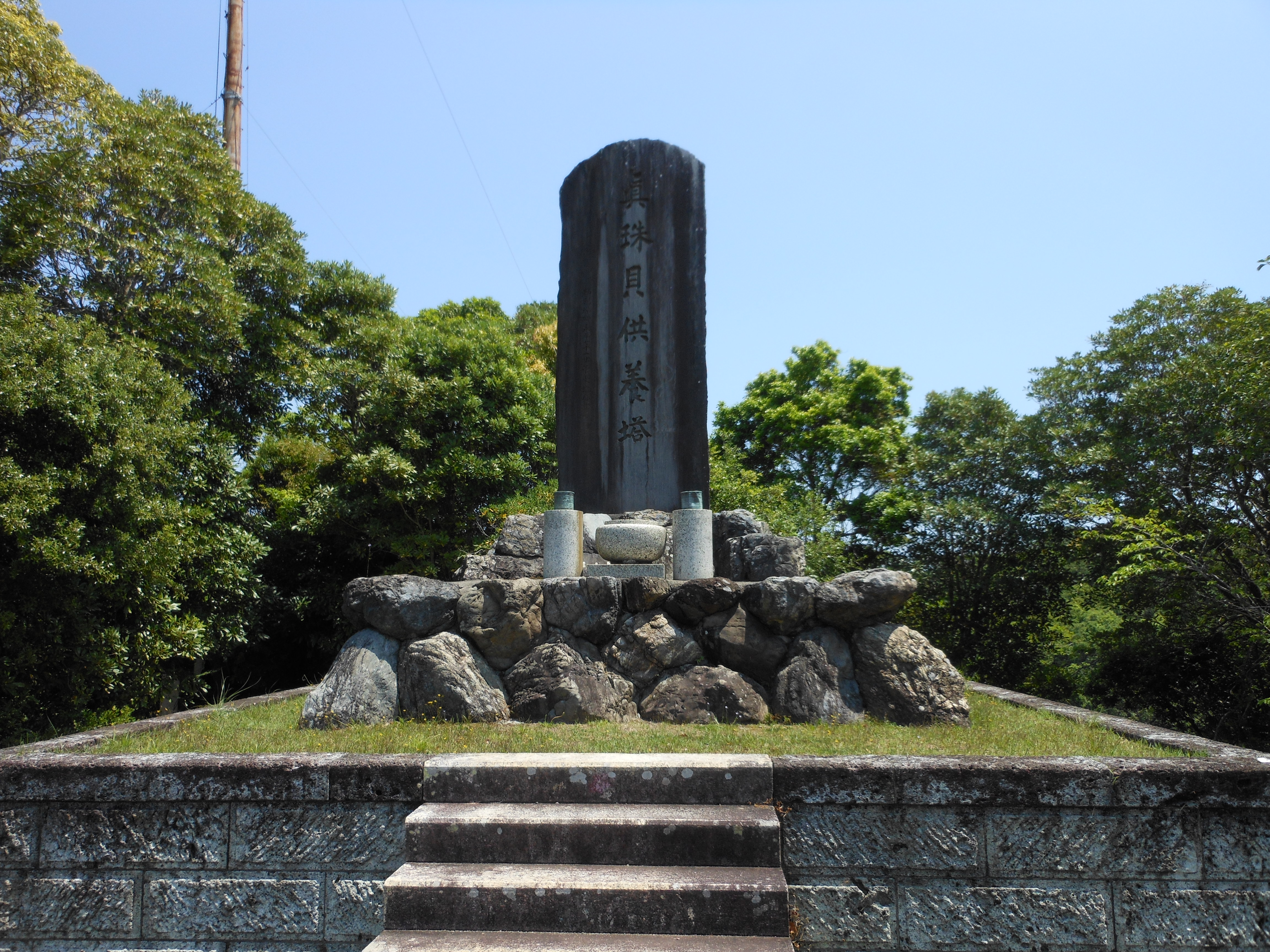 This is Pearl Shell Memorial Tower in Shima, Mie, Japan.